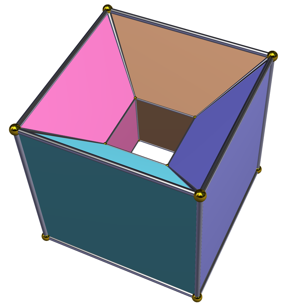 {4,4|4} skew polyhedron in perspective projection from 4D to 3D.